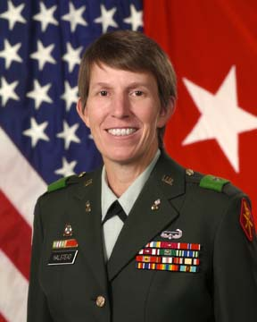 U.S. Army Brigadier General Rebecca S. Halstead. Chief of Ordnance & Commanding General, U.S. Army Ordnance Center & Schools.